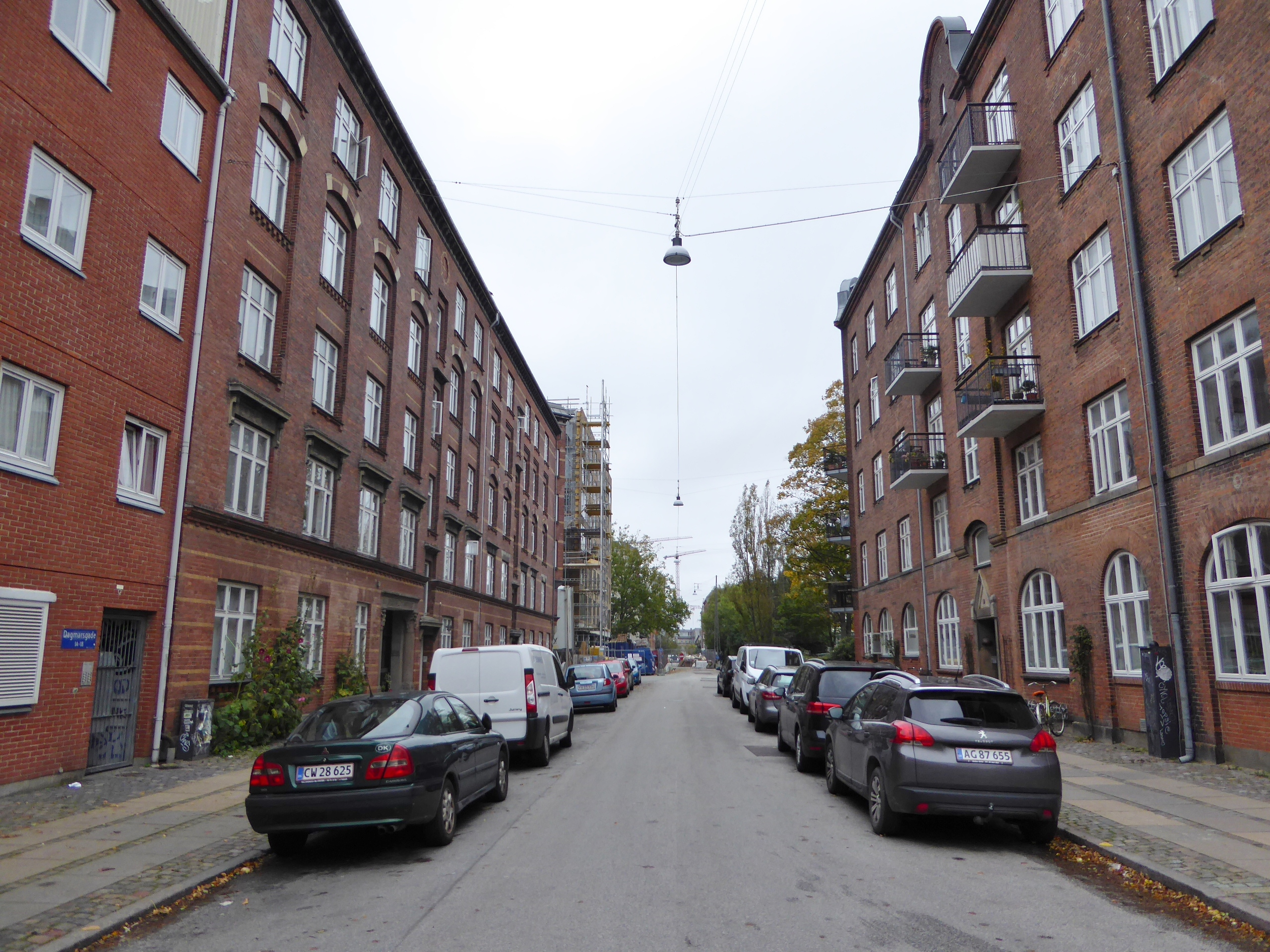 The street Dagmarsgade in Nørrebro in Copenhagen.